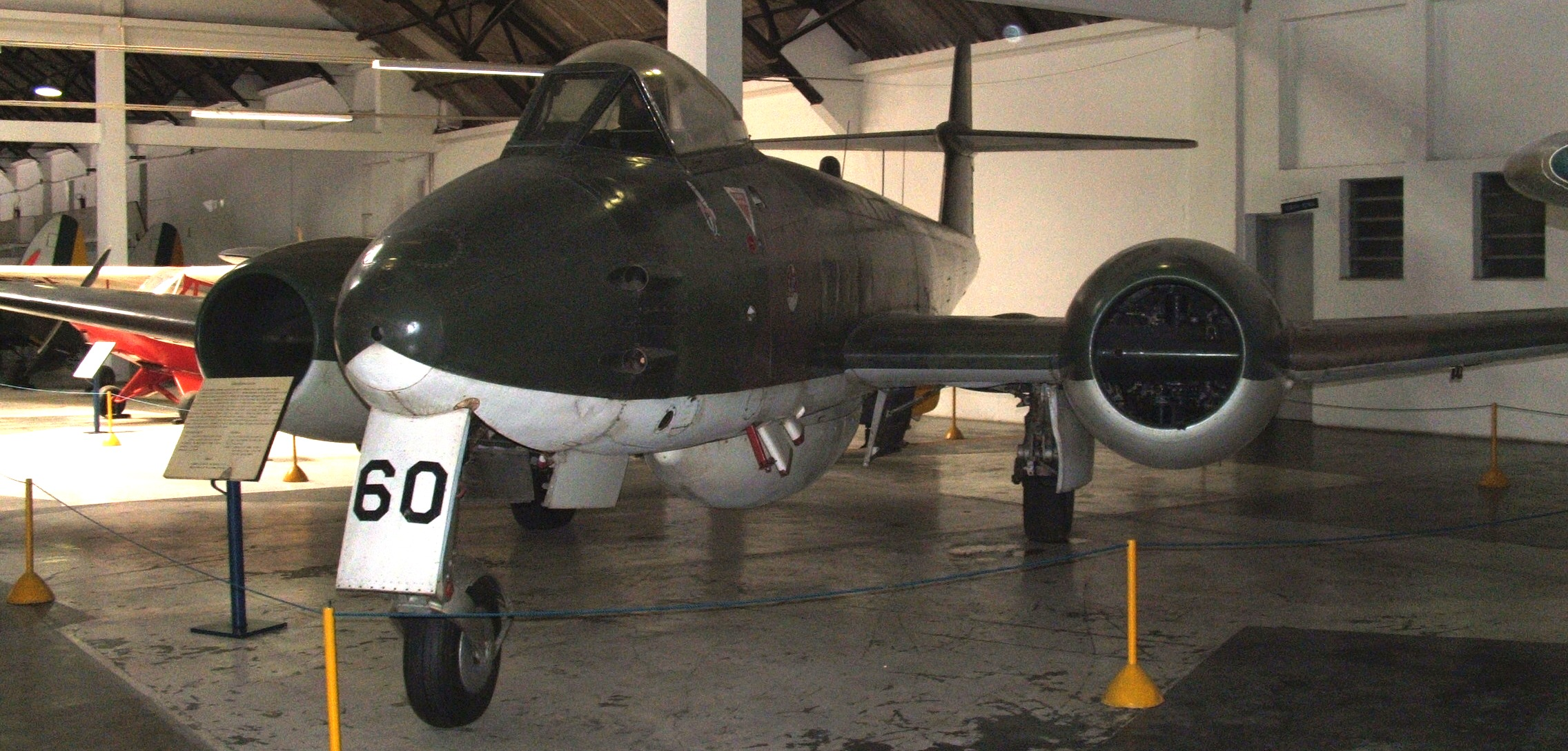 Gloster Meteor on exposition in the Airspace Museum, in Rio de Janeiro.